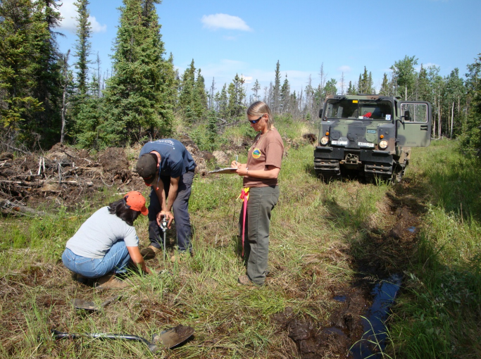 Geotechnical shear vane test in progress